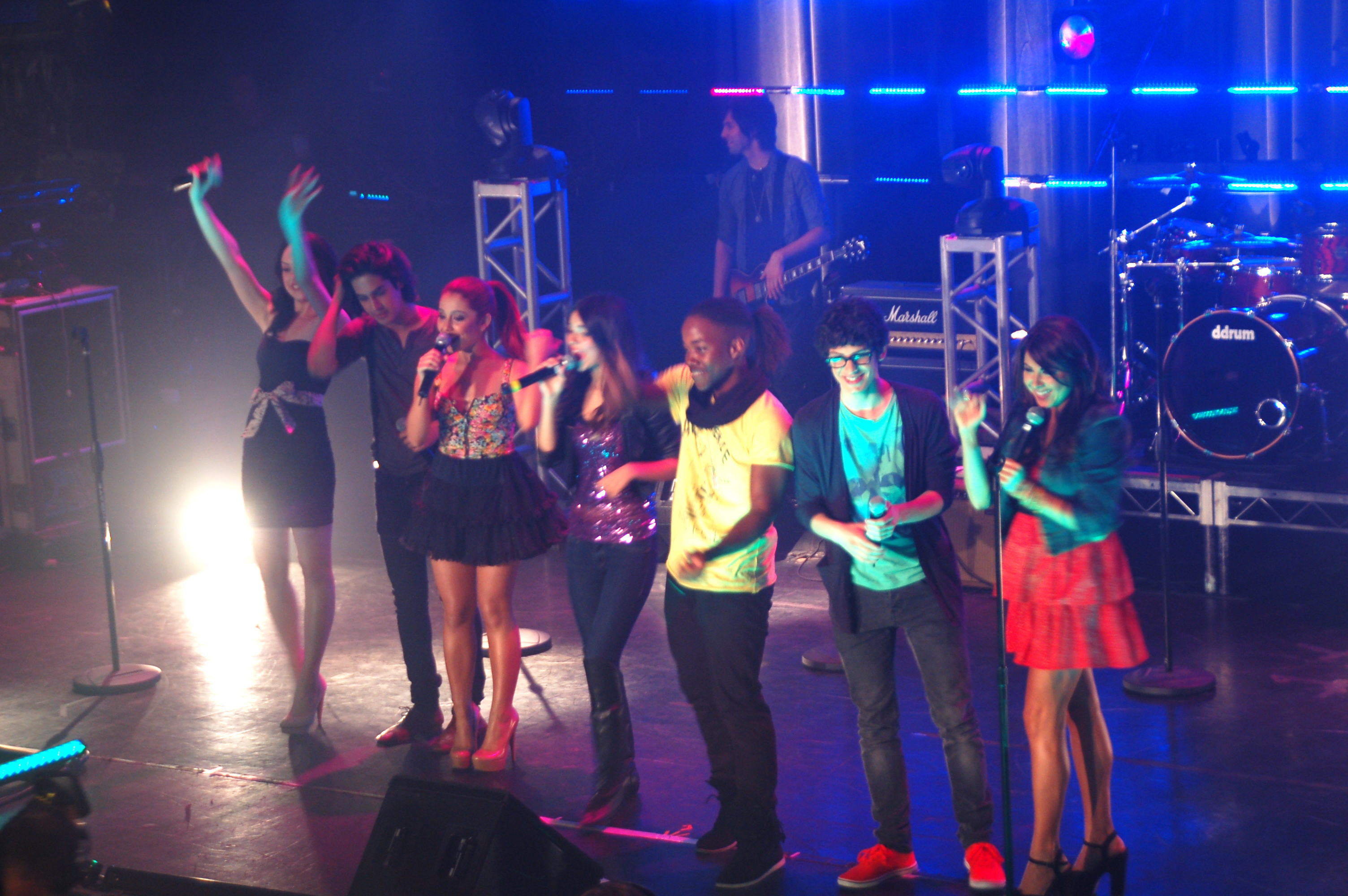 Victoria Justice and the rest of the Victorious cast making a performance at Avalon Hollywood. From left to right the actor (with role played in parentheses) are: Elizabeth Gillies (as Jade West), Avan Jogia (as Beck Oliver), Ariana Grande (as Cat Valentine), Victoria Justice (as Tori Vega), Leon Thomas III (as Andre Harris), Matt Bennett (as Robbie Shapiro), Daniella Monet (as Trina Vega)